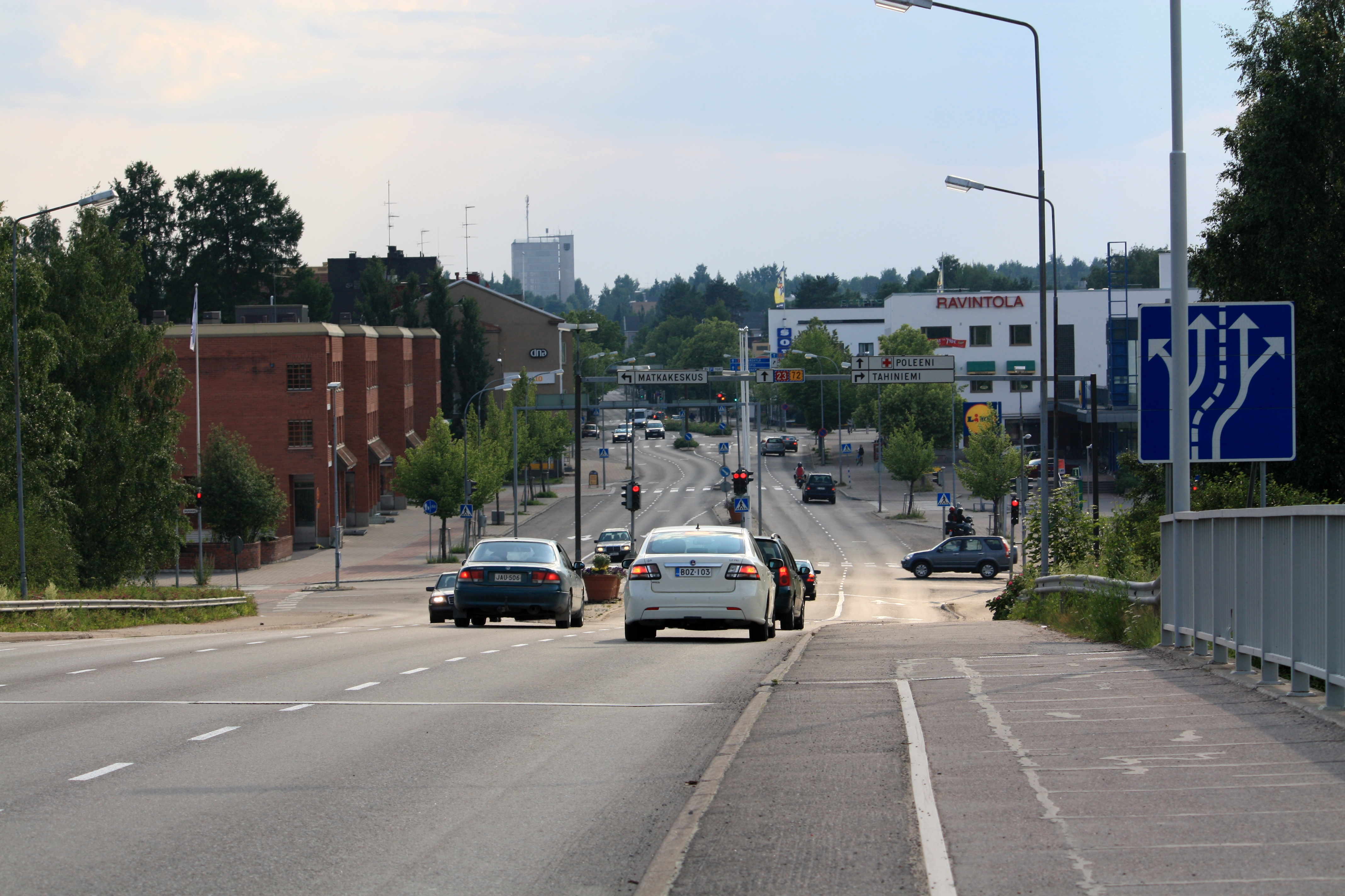 Keskuskatu Street seen from the bridge over the railway in Pieksämäki, Finland